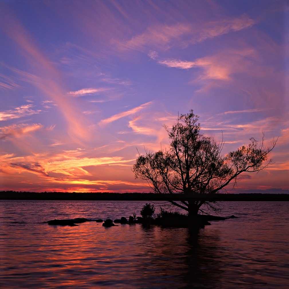 Sunset over one of the smallest of the Thousand Islands. Shot on 6x6 cm Fuji Velvia with a Mamiya C-series twin-lens reflex camera.